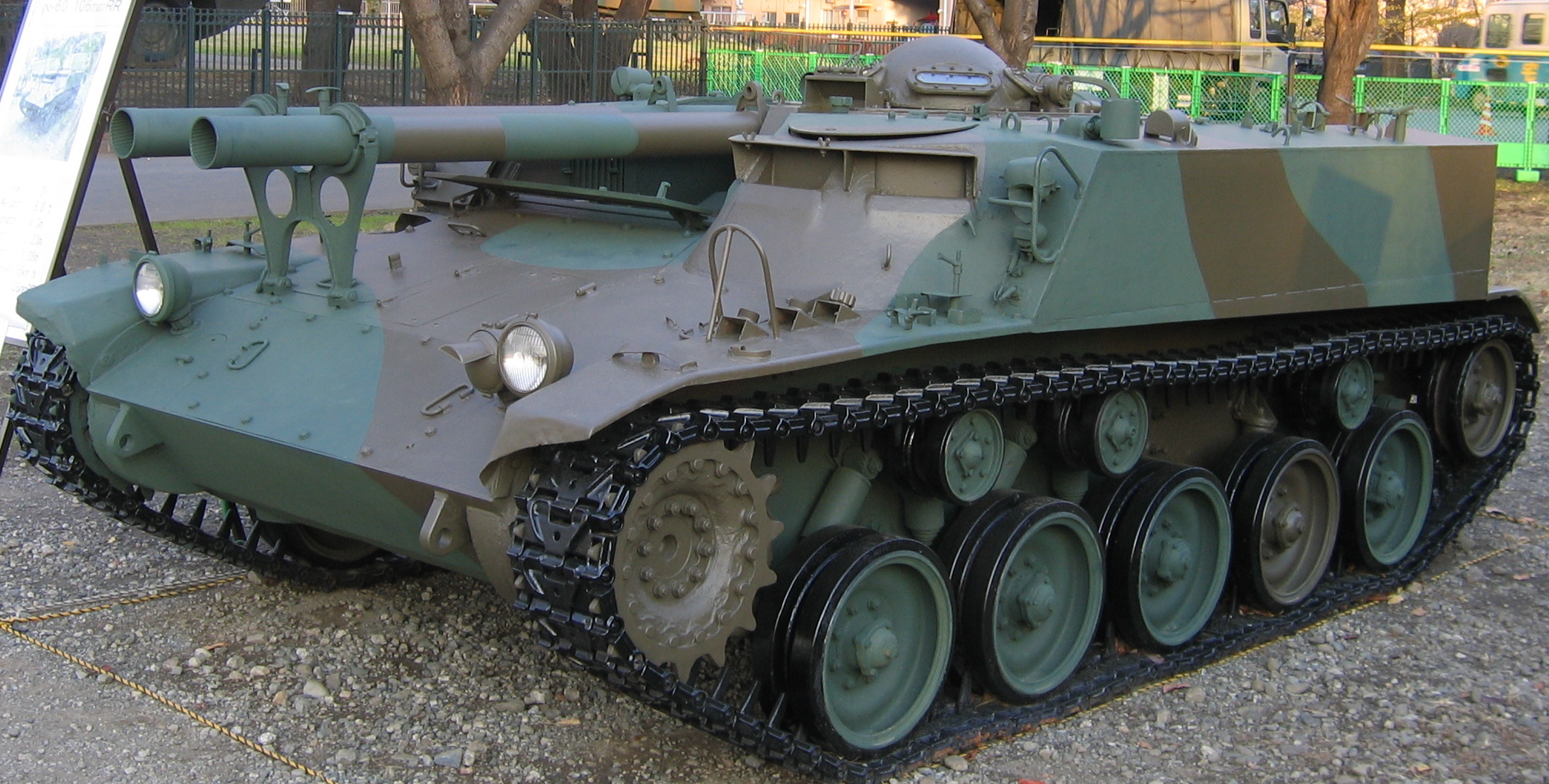 Left-front view of a Type 60 Self-propelled Recoilless Gun at the Sinbudai Old Weapon Museum, Camp Asaka, Japan